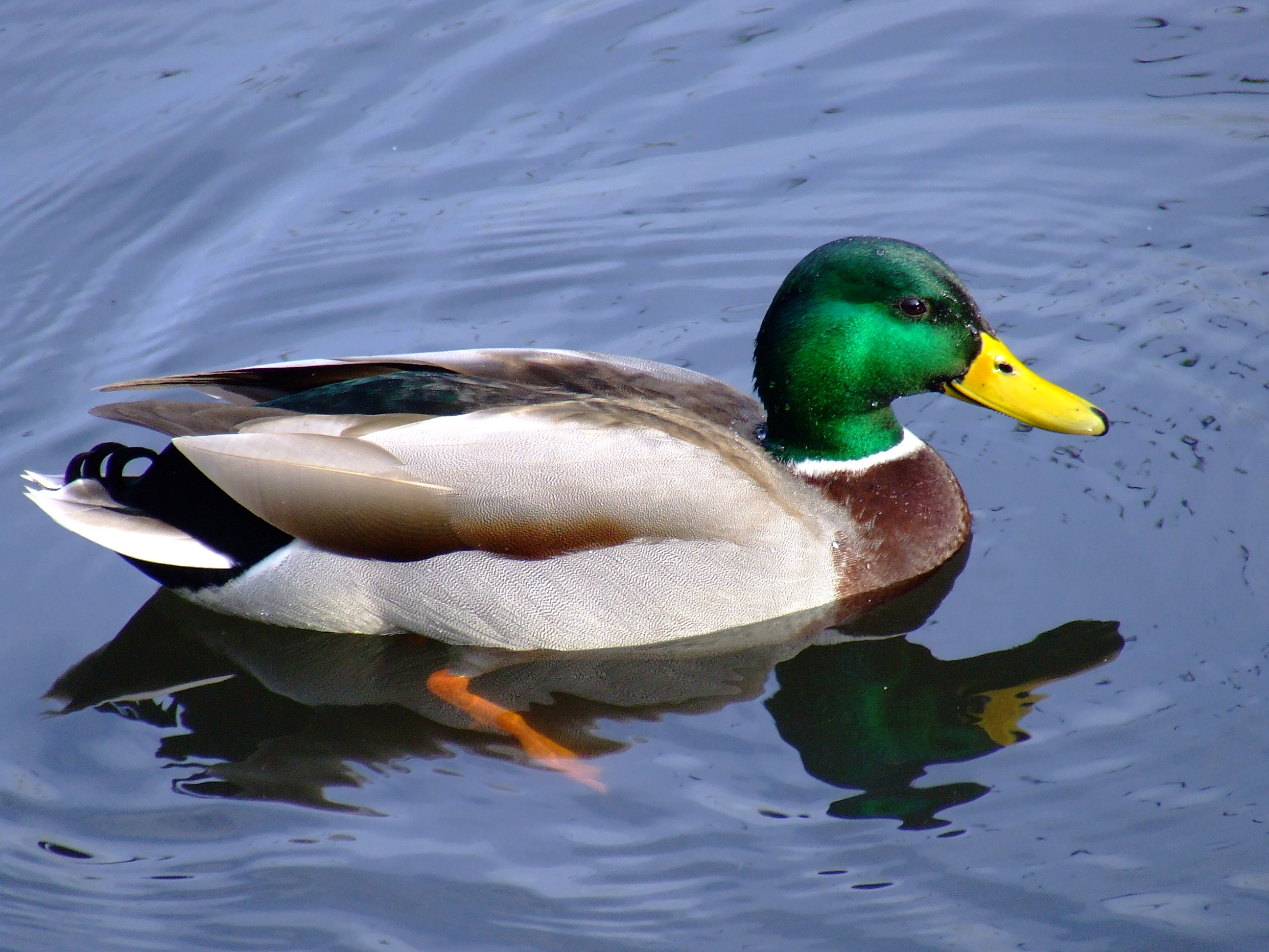 mallard drake taken with a Fuji S5600